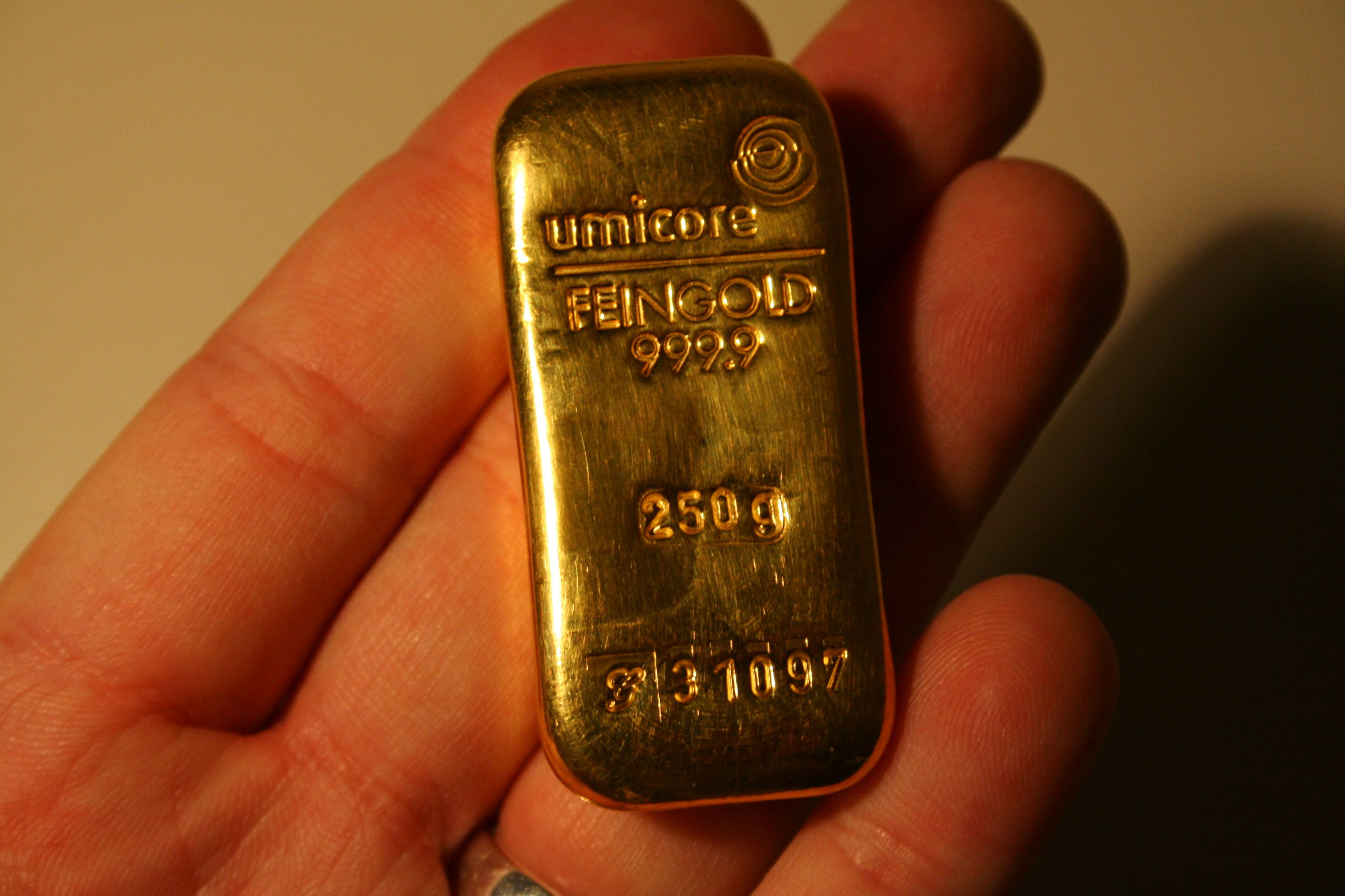 Size of a 250g Gold bar of 999 Fine Gold (Umicore).